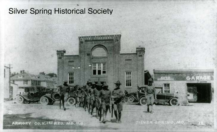 A picture of the Silver Spring Armory in 1917.